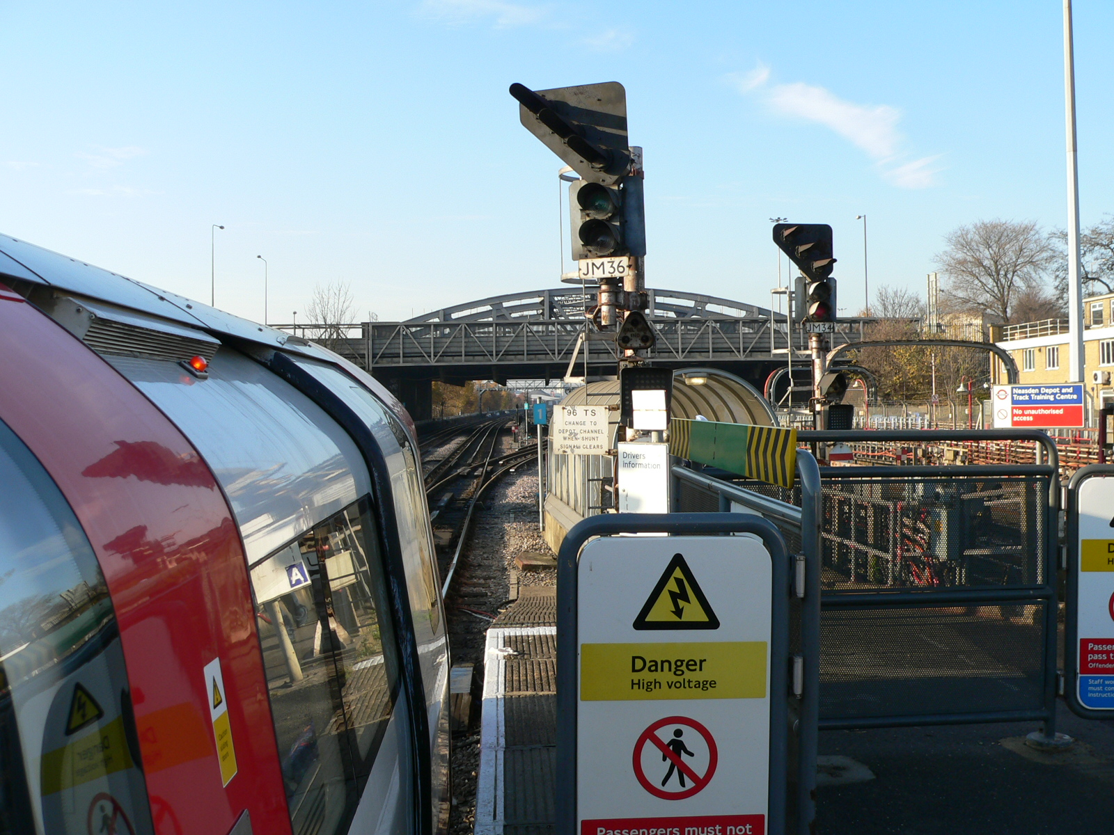 Looking north from the doorway of a Jubillee Line 1996 tube stock train at the northern end of Kilburn tube station.